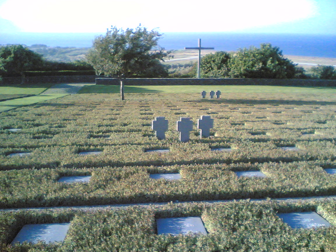 Maleme Military Cemetery